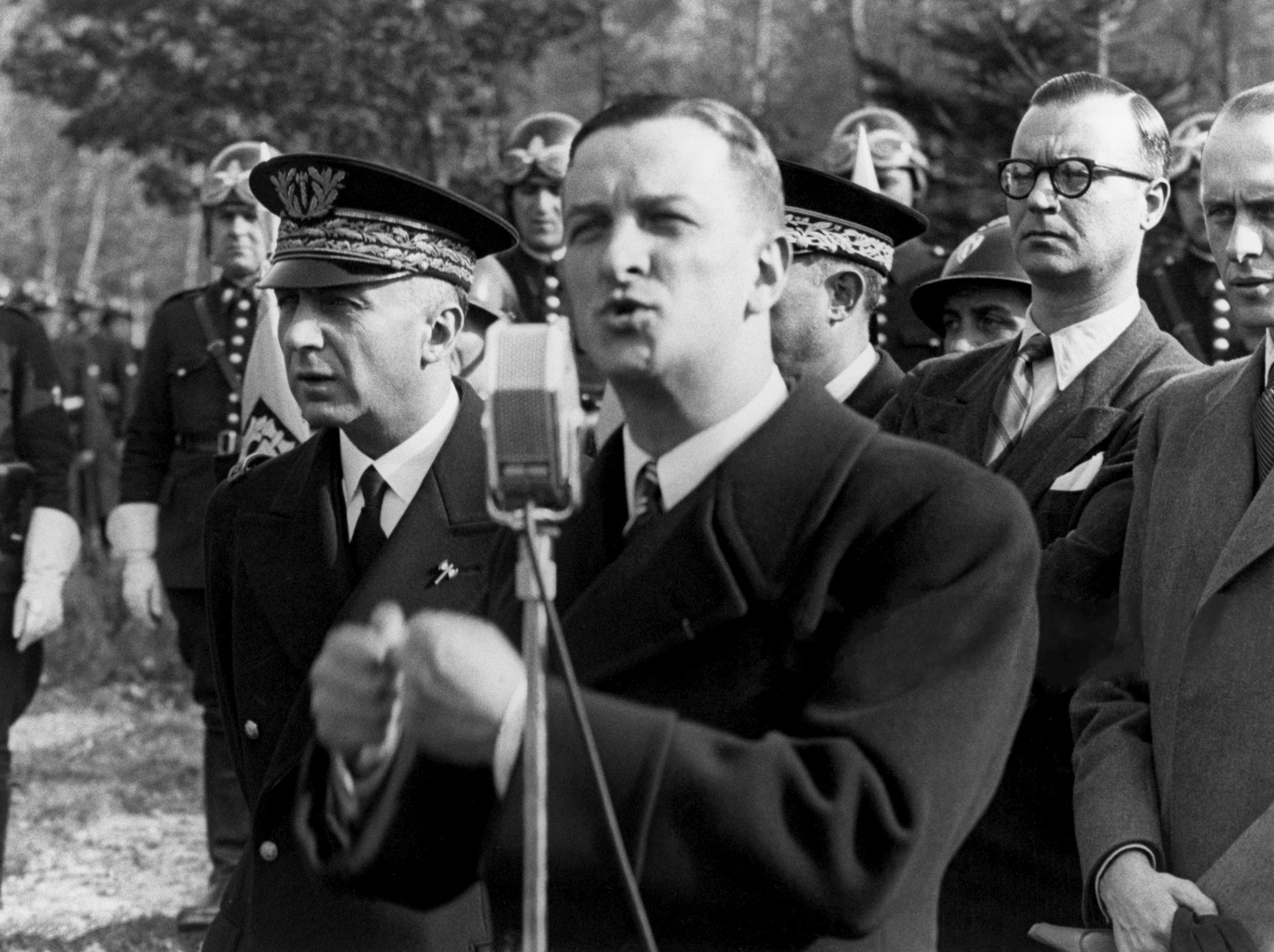 Speech By Bousquet, Secretary General Of The Police Of Vichy Regime, In Front Of The Reserve Mobile Groups (Gmr), On March 23Rd 1943.